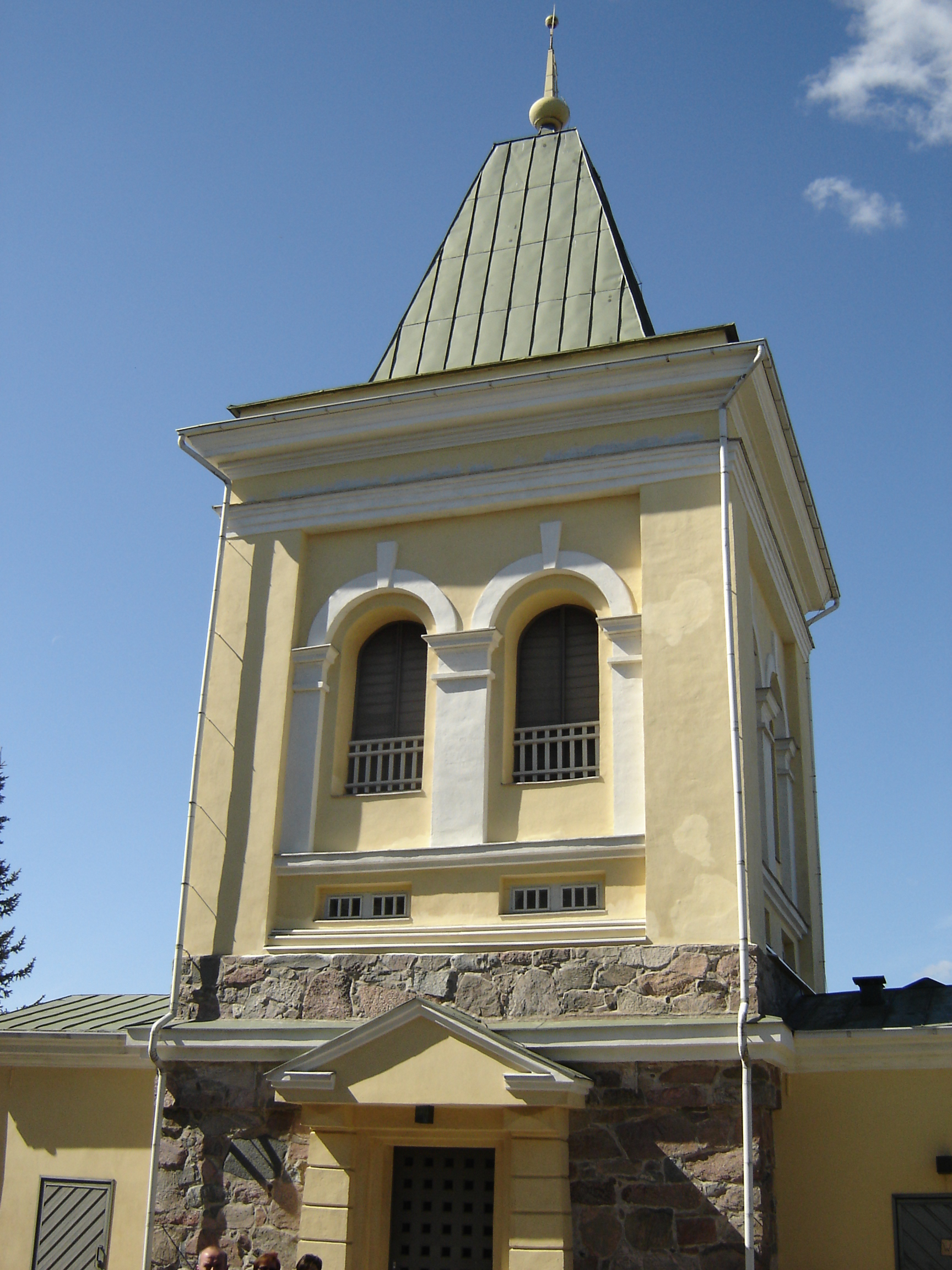 The bell tower of Kirkkonummi church in Kirkkonummi, Finland